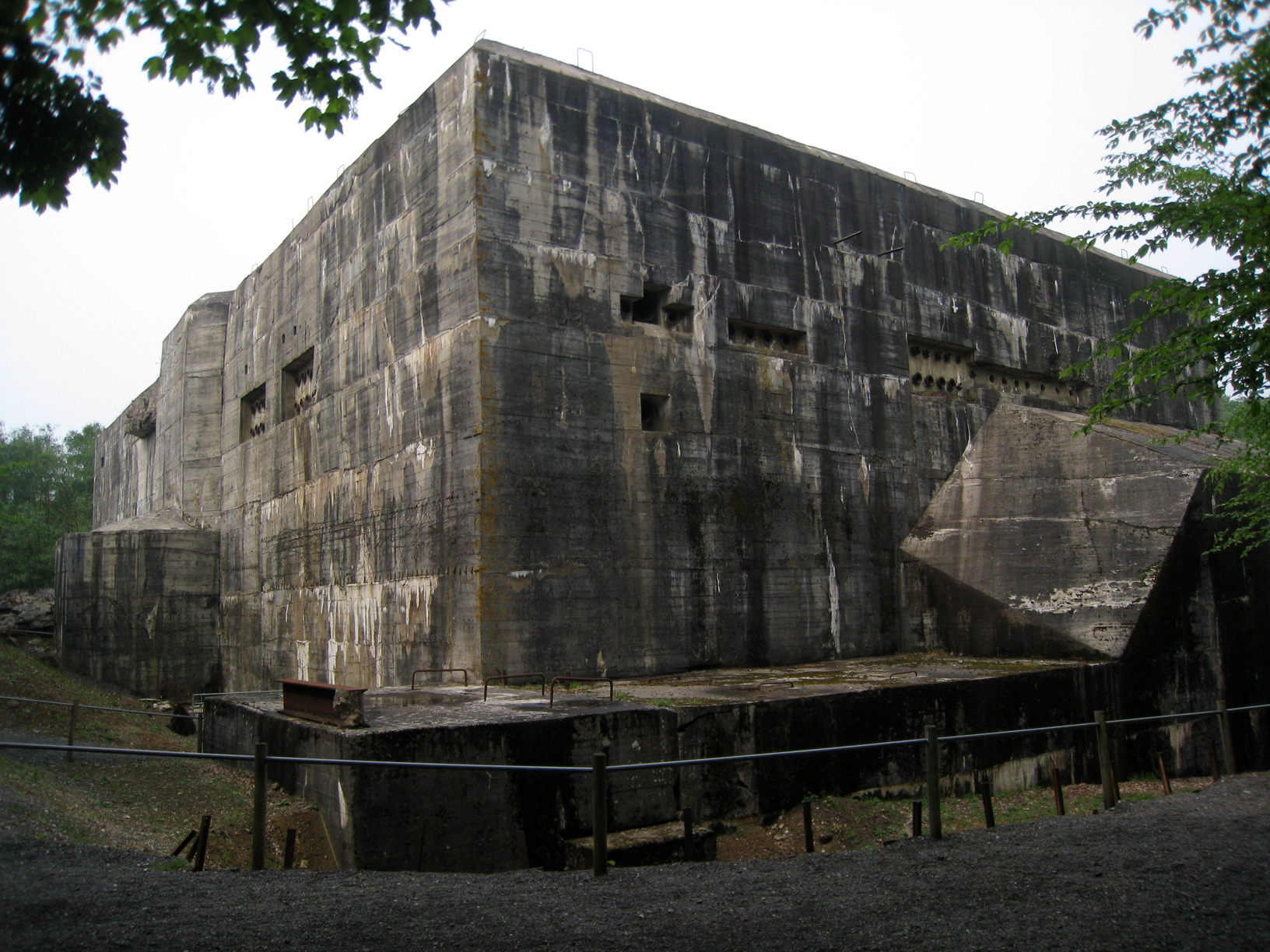 Southeast corner of the Blockhaus d'Éperlecques.